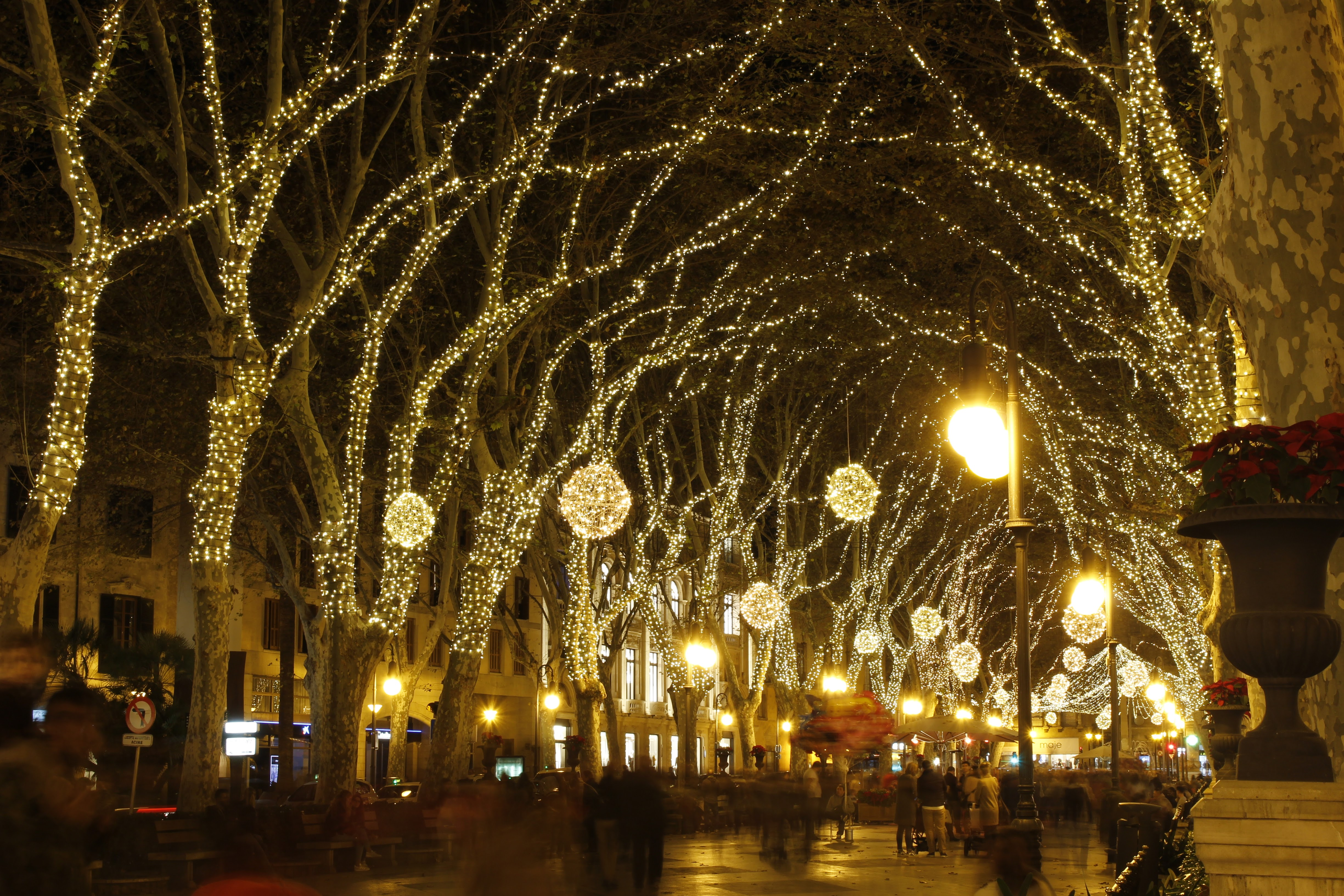 Palma de Mallorca in Christmas